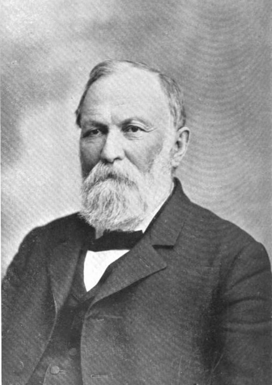 Portrait photograph of New Hampshire Supreme Court Justice Lewis Whitehouse Clark.